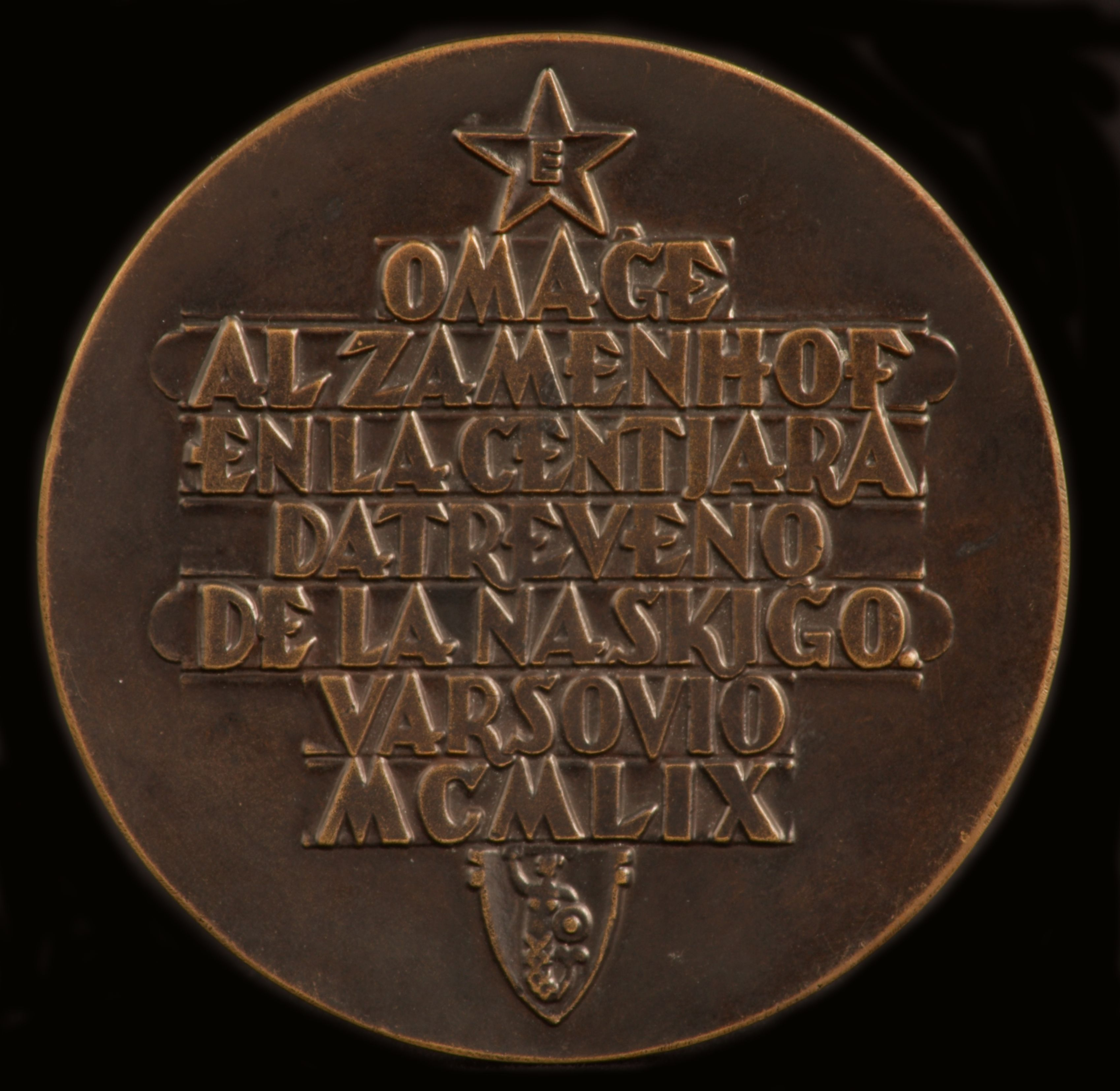 Reverse of medal with L. L. Zamenhof (Ludwik Lejzer, Ludwik Łazarz) Zamenhof, designed by Józef Gosławski in 1959